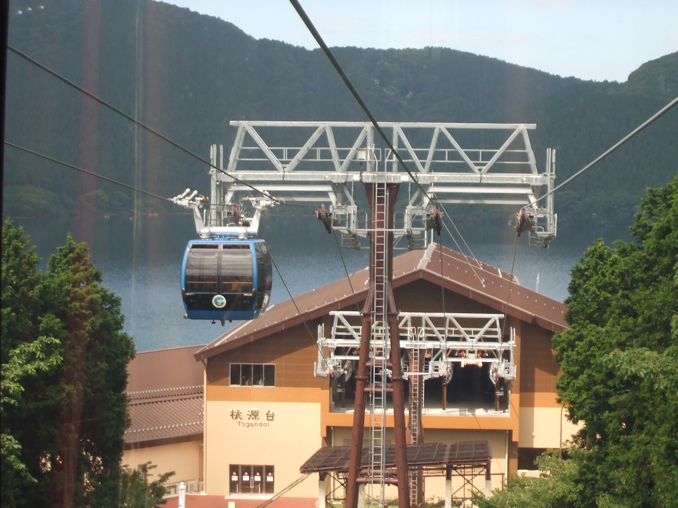 Double Loop Mono-cable type aerial tramway or funitel in Hakone, Japan.